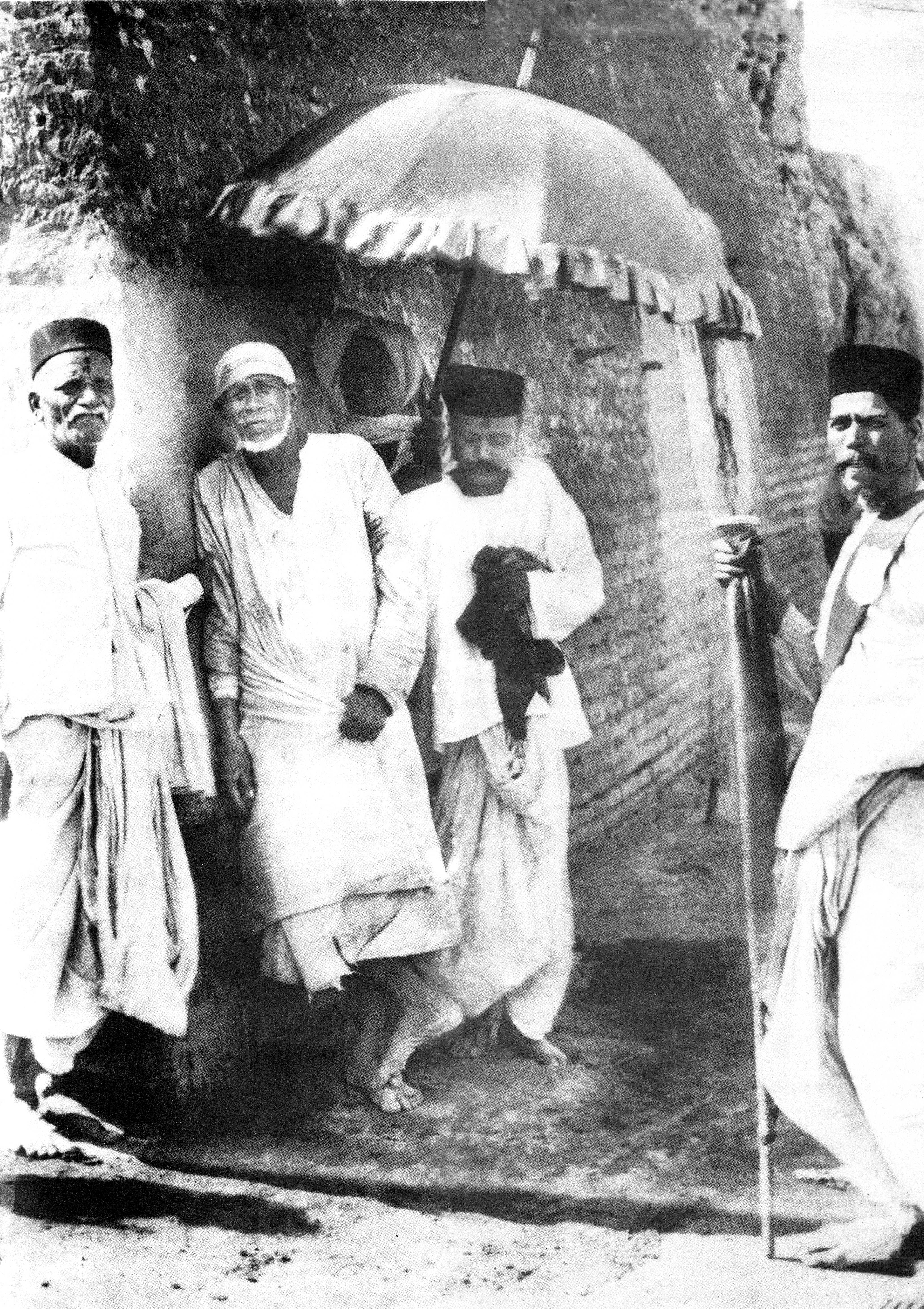 Very high resolution original photo of Sai Baba of Shirdi. This photograph is taken in 1916 i.e., 2 years before the Mahasamadhi of Sai baba.To Sai Baba's right is Gopal Rao Mukund Buti, millionaire of Nagpur, India. Behind Sai Baba and holding the umbrella is Bhagoji Shinde, Sai Baba's devotee whose leprosy was arrested by Sai Baba. To Sai Baba's left is Nanasaheb Nimonkar, a devotee.